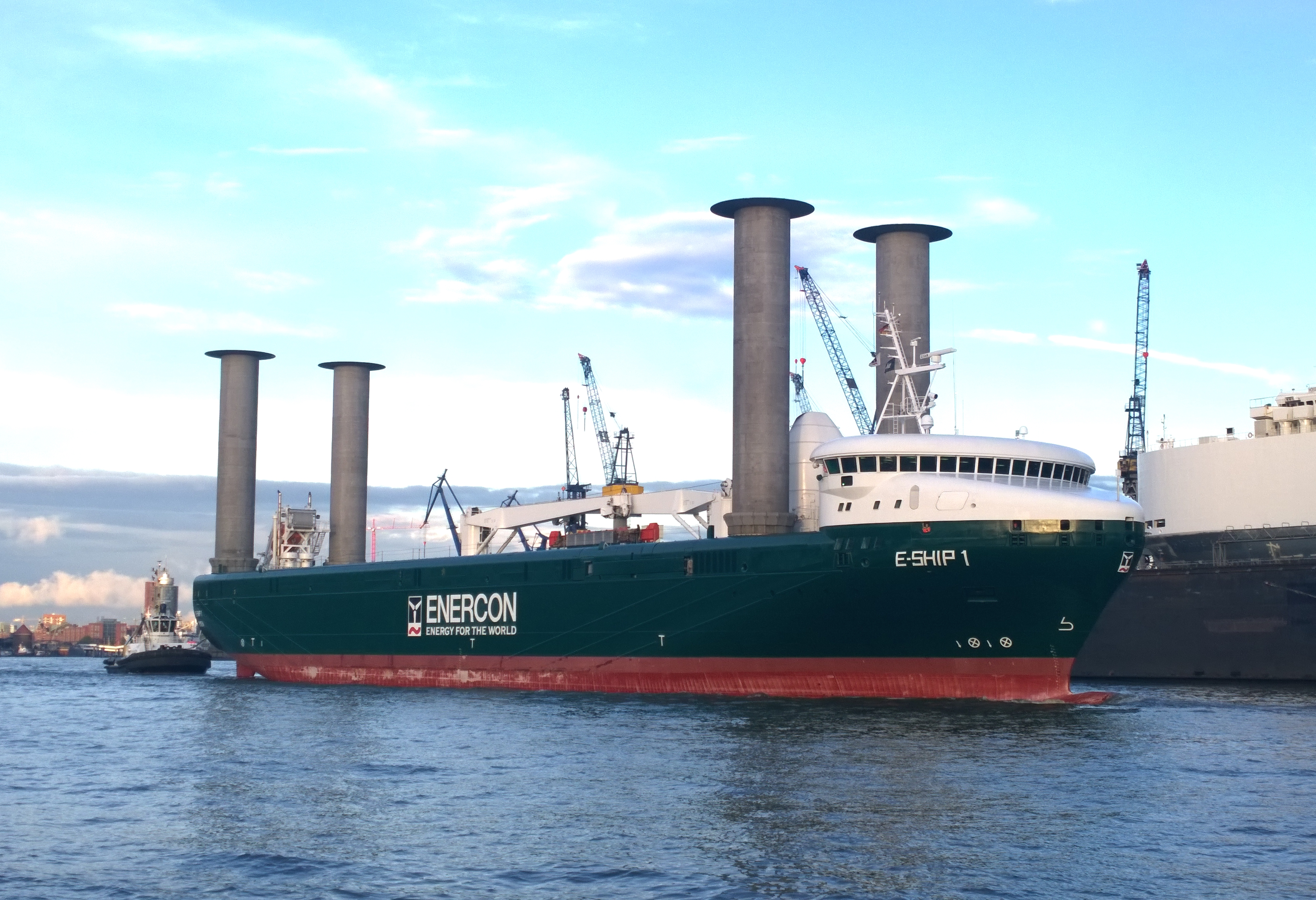 E-Ship 1 in the port of Hamburg in trip in June 2015